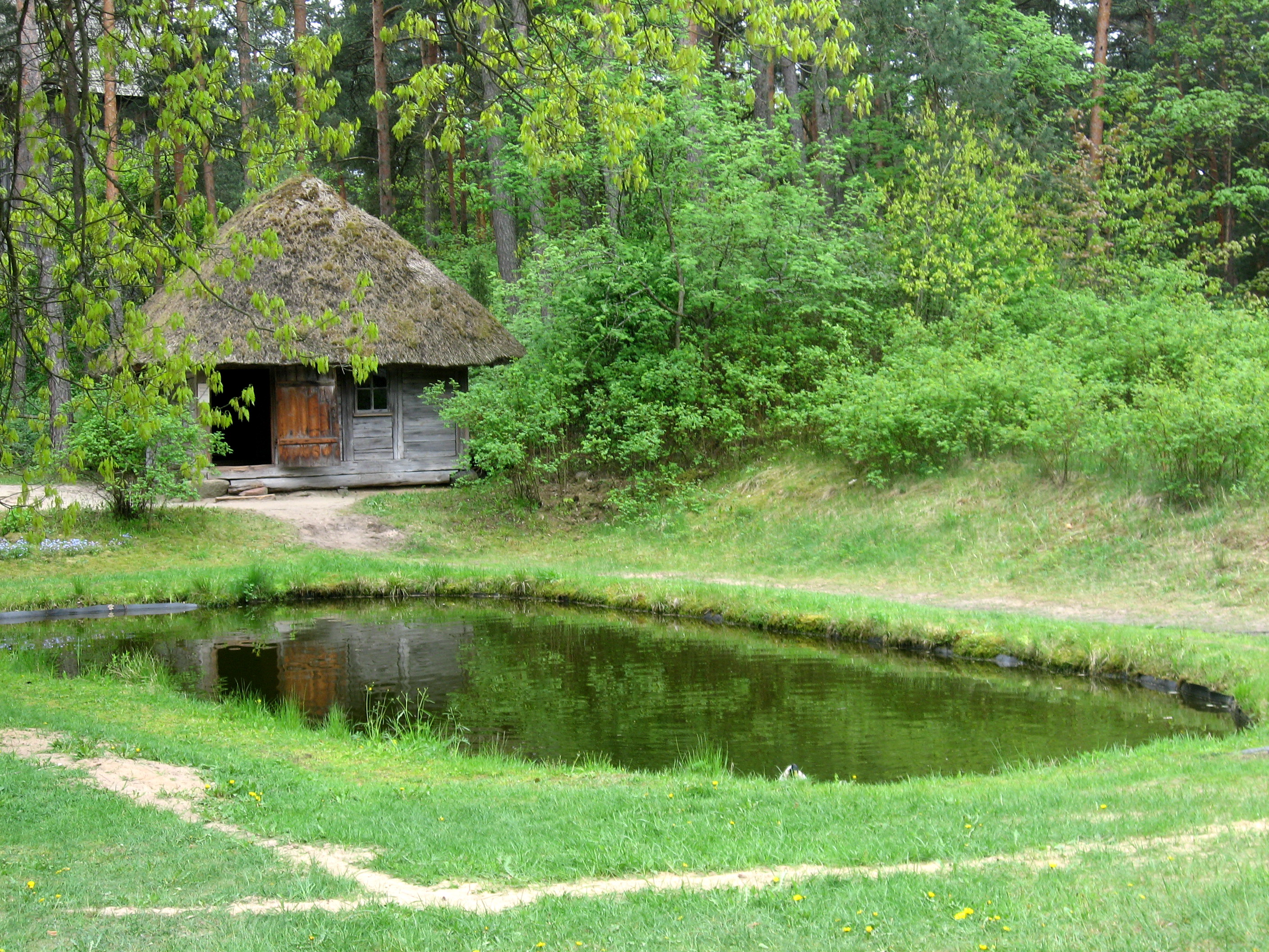 Latvian bathhouse with a pond built in 1862 at "Spirēni", Nīca, Kurzeme, currently located at the Latvian Ethnographic Open Air Museum